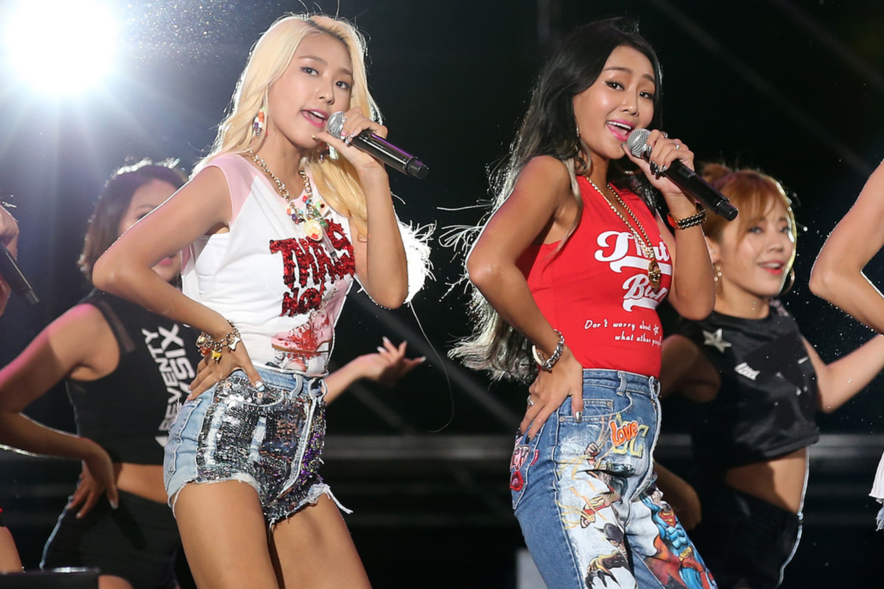 Sistar19 performing at The 70th Independence Day of Republic of Korea on August 14, 2015.